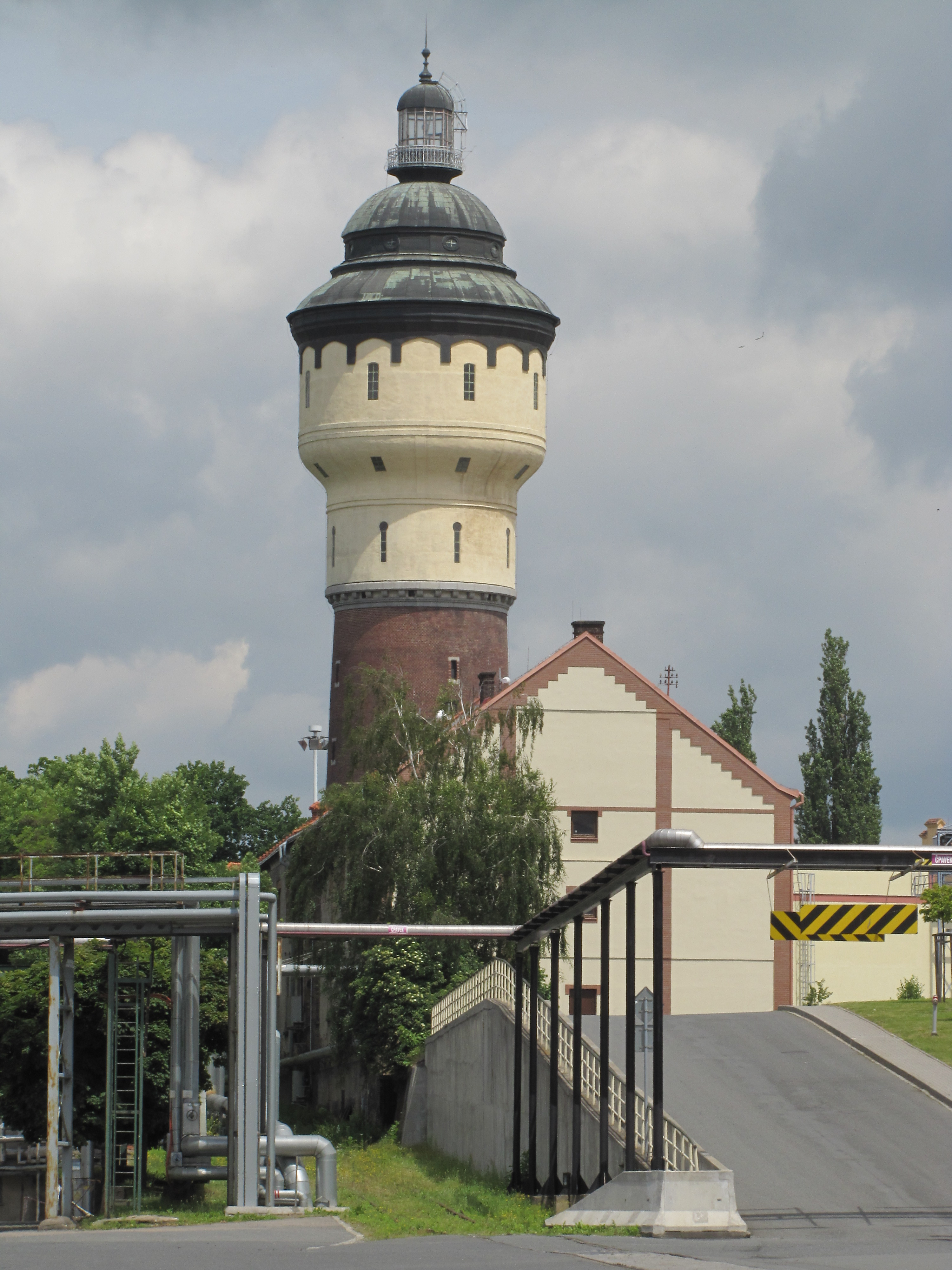 Pivovarská vodárenská věž